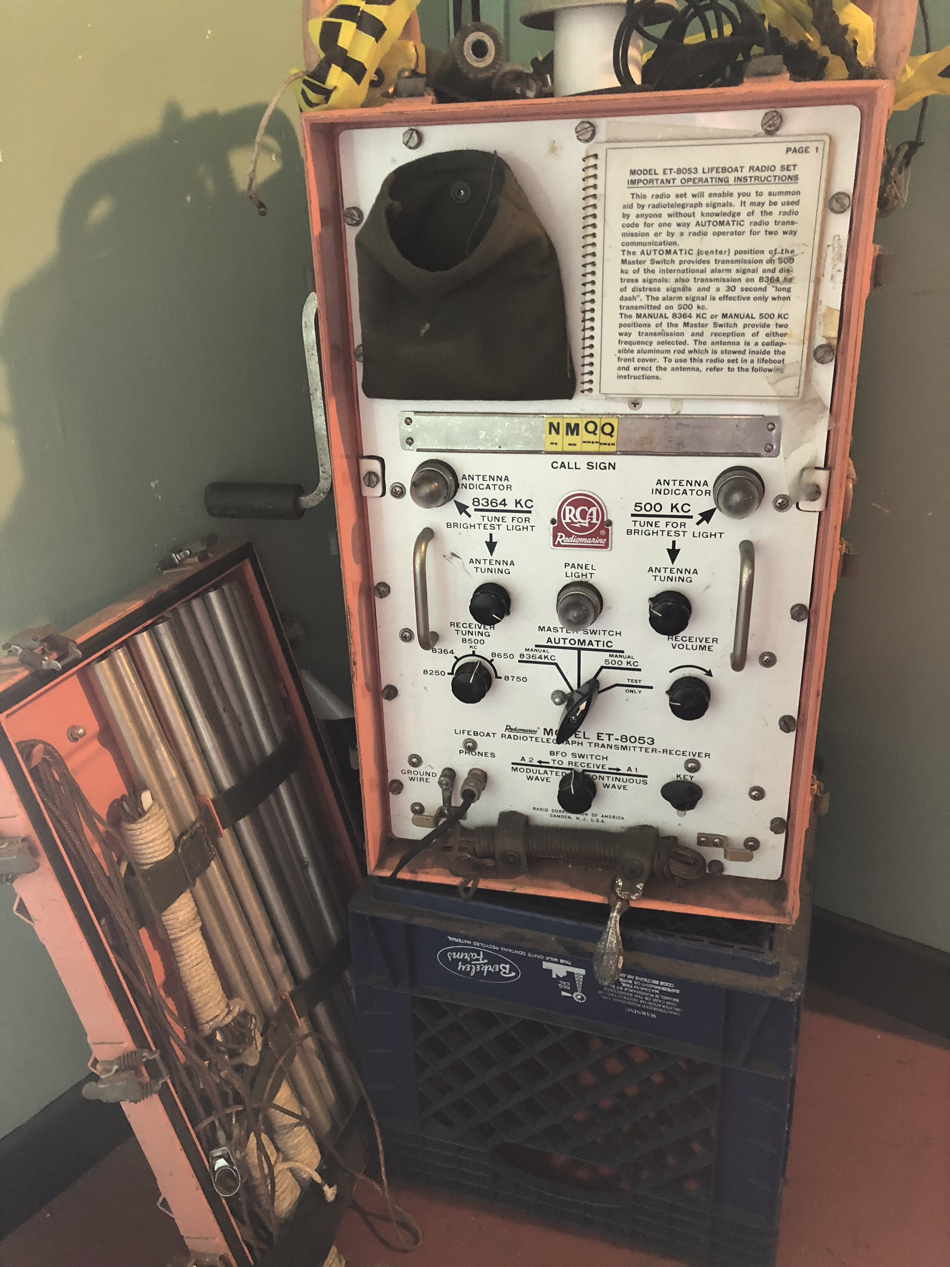 SS Jeremiah O'Brien lifeboat radio